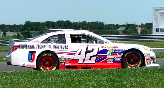 Ernie Francis Jr. on track at New Jersey Motorsports Park in 2018.